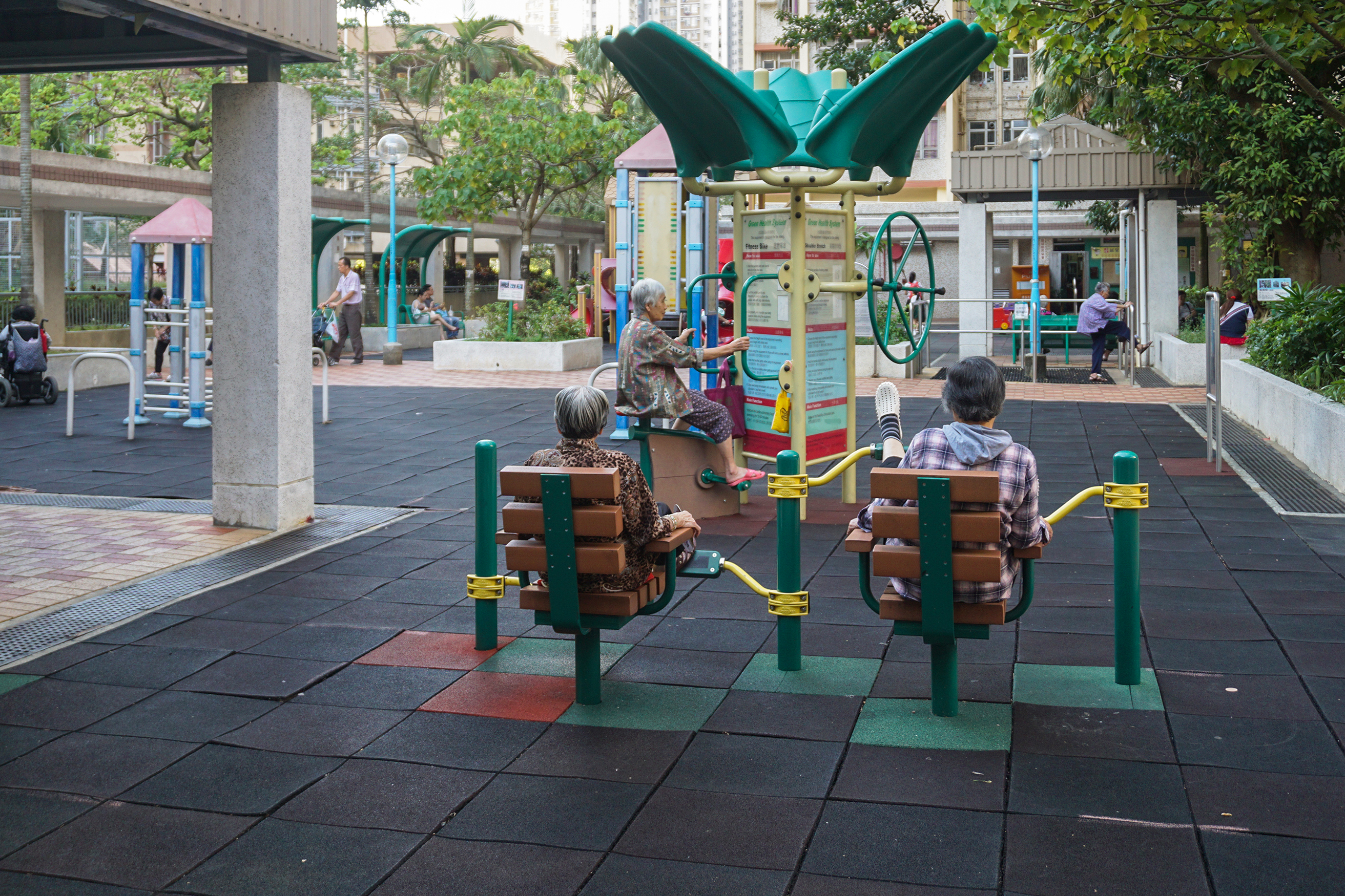 Ping Tin Estate in Lam Tin, Hong Kong.